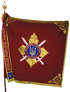 Ukrainian Department of the State Guard Head Standard